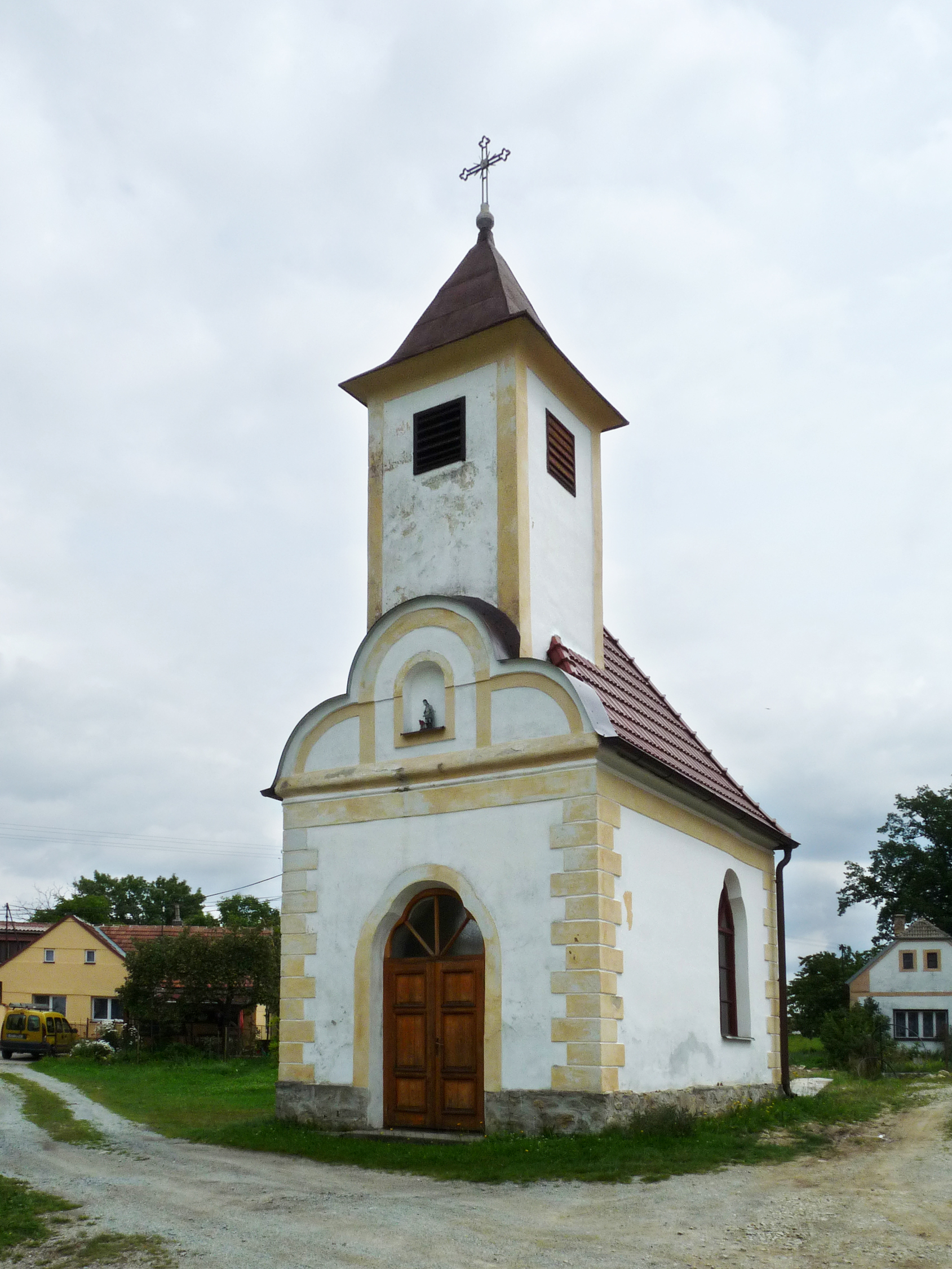 Chapel in Otěvěk, a small village in České Budějovice District, Czech Republic.